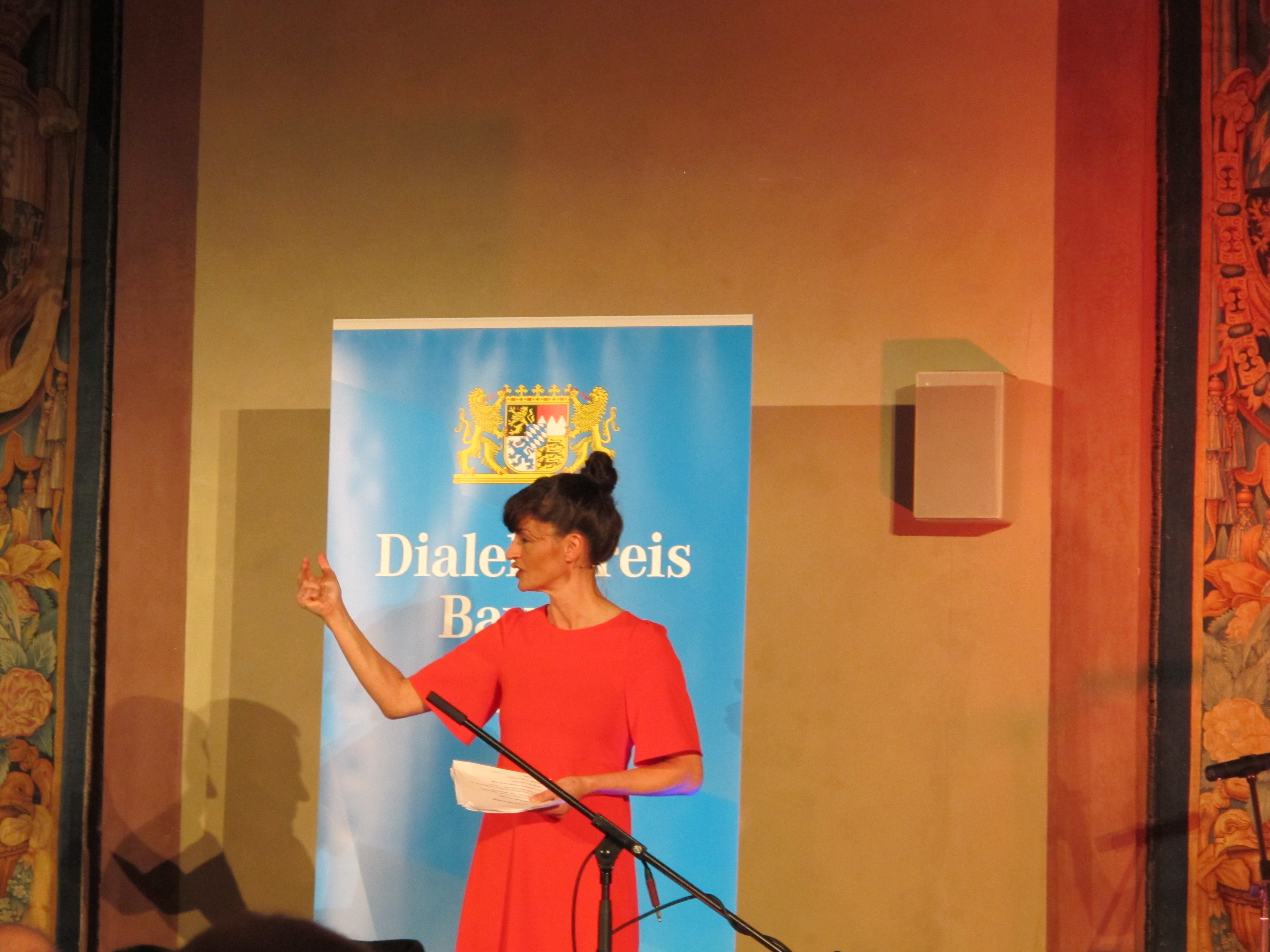 Marion Schieder as hostess at the award ceremony for the Bayerischer Dialektpreises 2017 in the Kaisersaal at Münchener Residenz